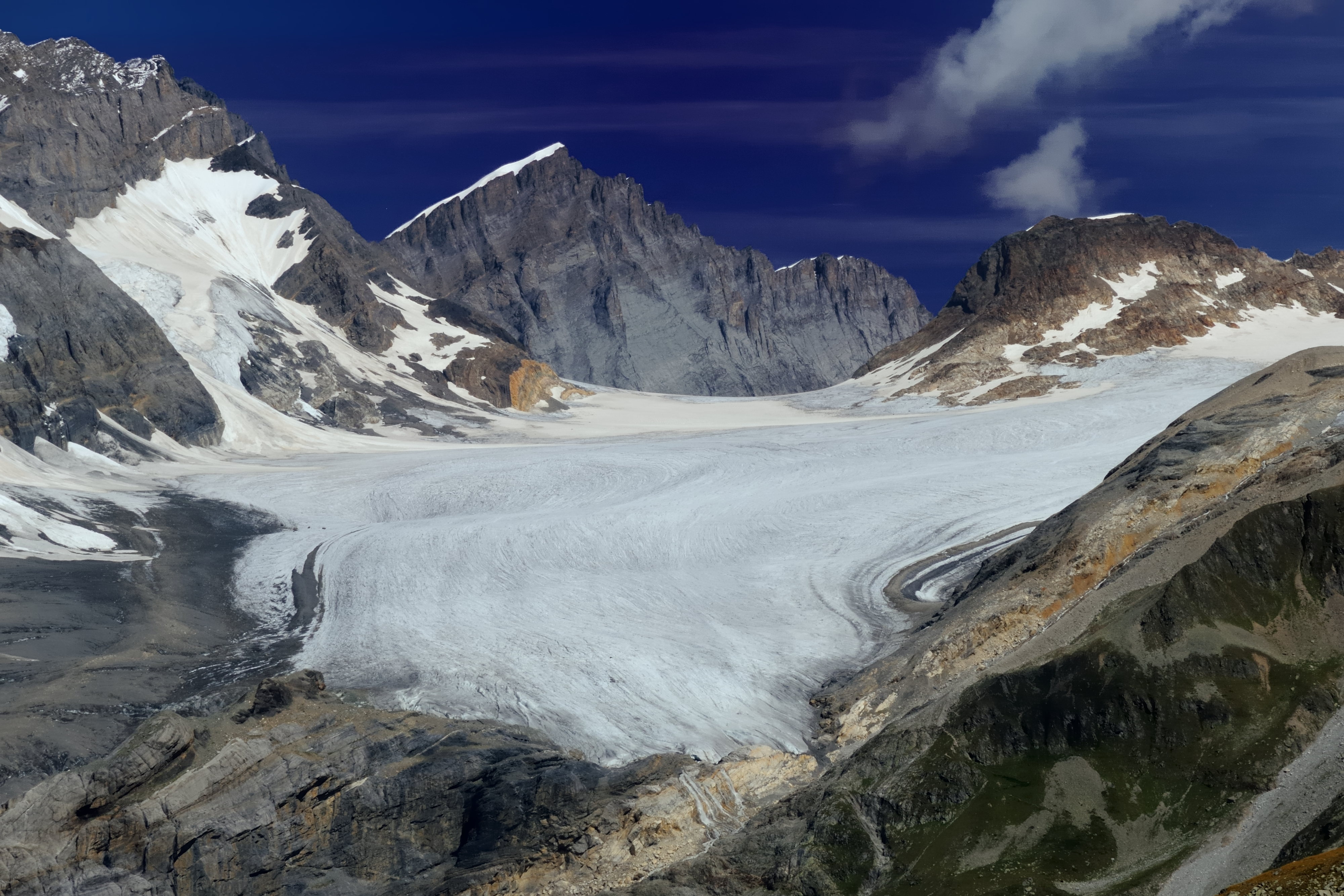 Kanderfirn from Lötschengletscher